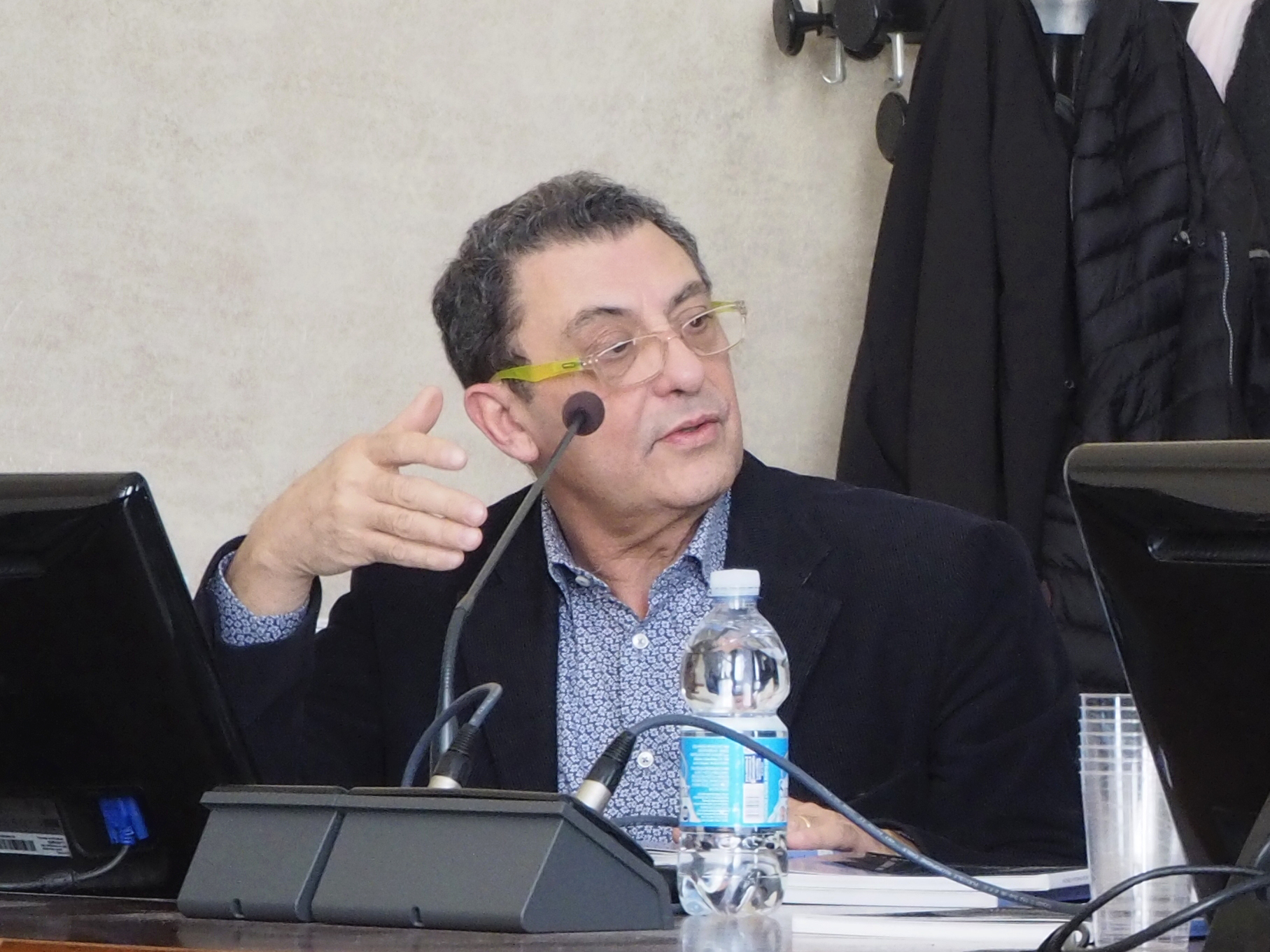 Fulvio Irace